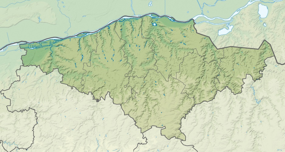 Relief location map Silistra Province, Bulgaria. Geographic limits of the map